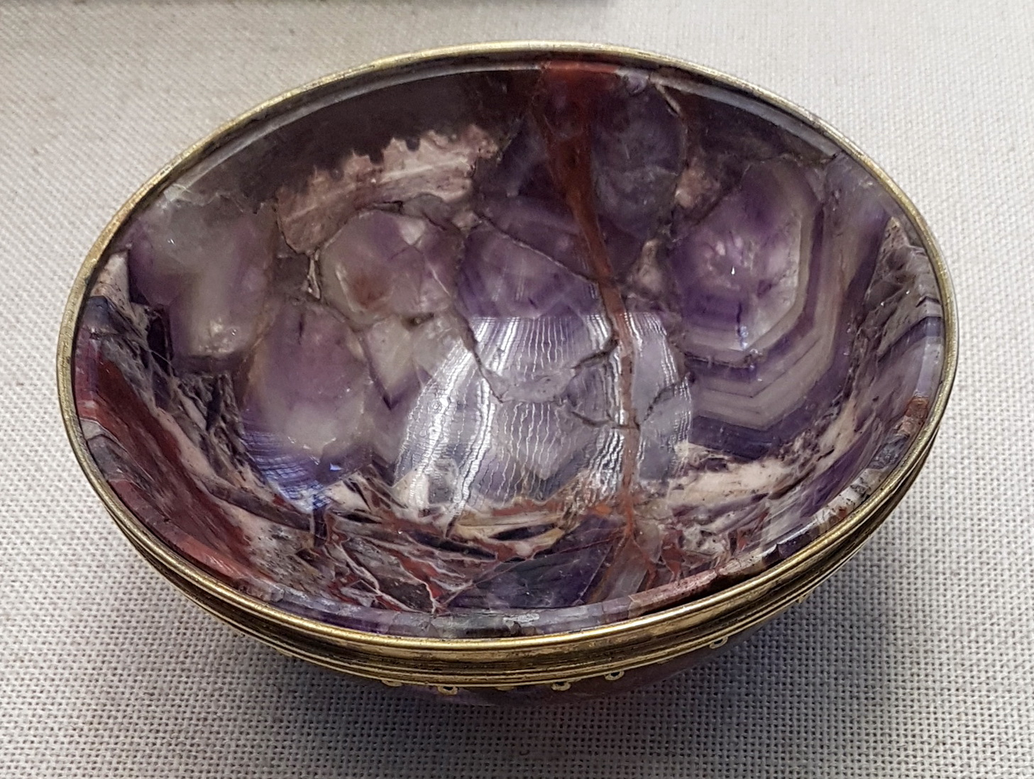 The so-called cup of Saint Helena (Helena-Trinkschale) in the treasury of Trier Cathedral, Germany. The cup is made of Lippe amethyst and dates from the 3rd or 4th century AD; the silver furnishing is Bohemian from the 14th c.